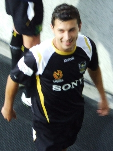 Costa Barbarouses after a Wellington Phoenix game.